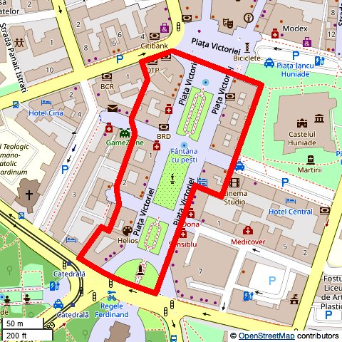 Map of heritage site "Ansamblul urban interbelic „Corso”", Timișoara, Romania